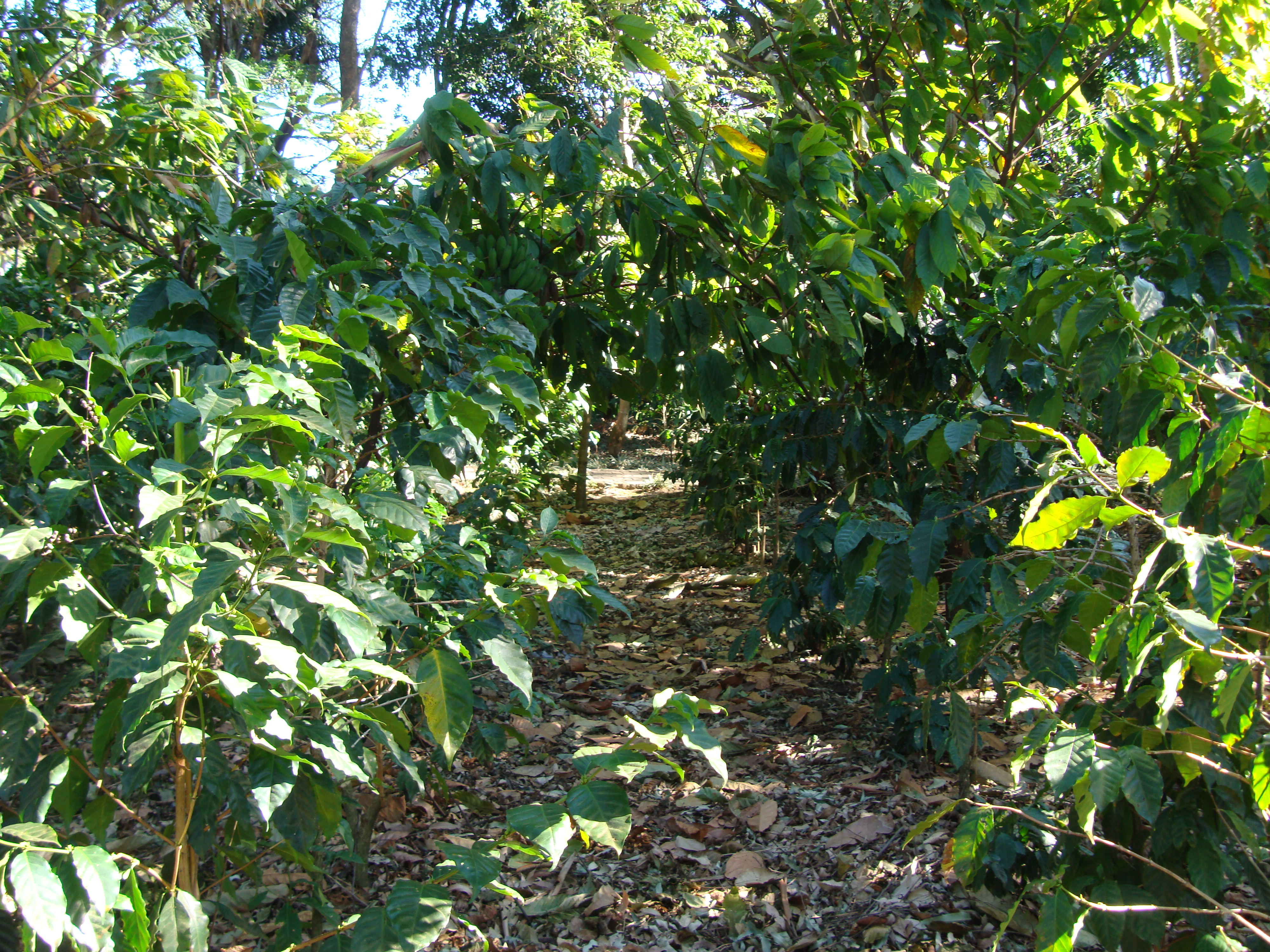 One of the examples coffee fields at the headquarters at Cafe Britt, Costa Rica